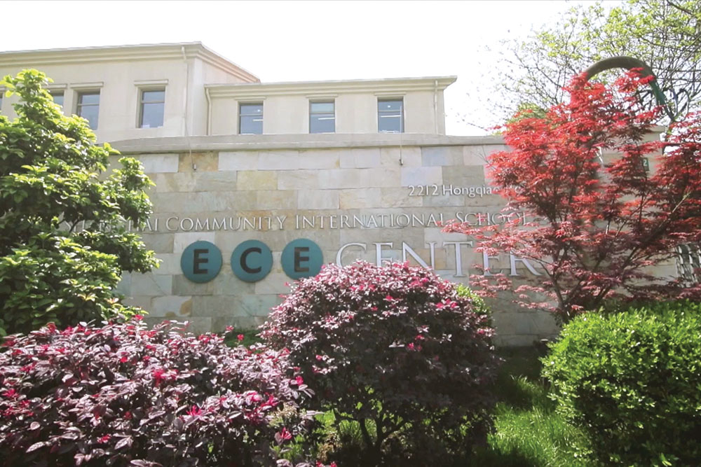 Shanghai Community International School Hongqiao ECE Campus from nursery to Grade 12